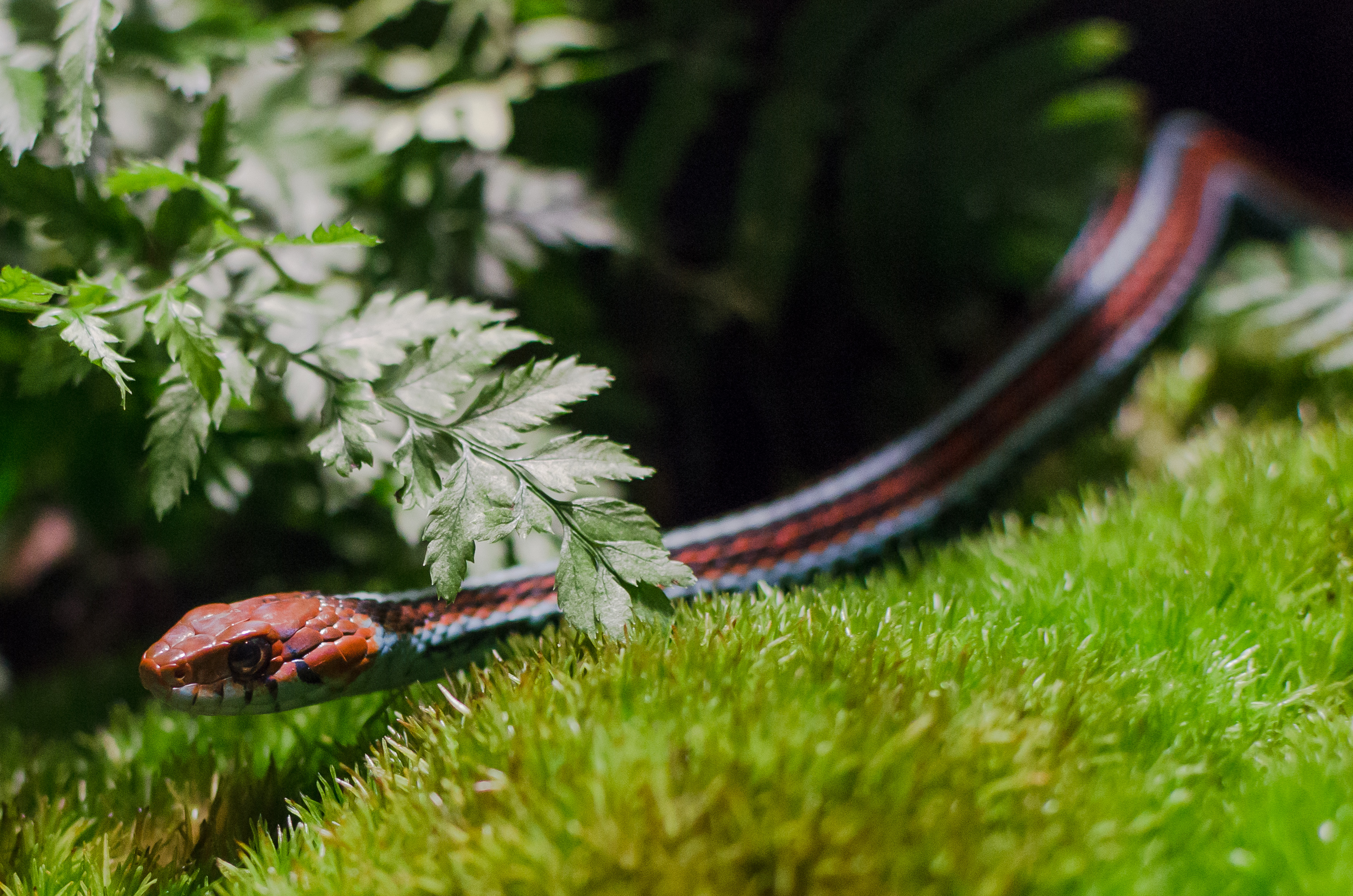 Thamnophis sirtalis tetrataenia at the Cologne zoo